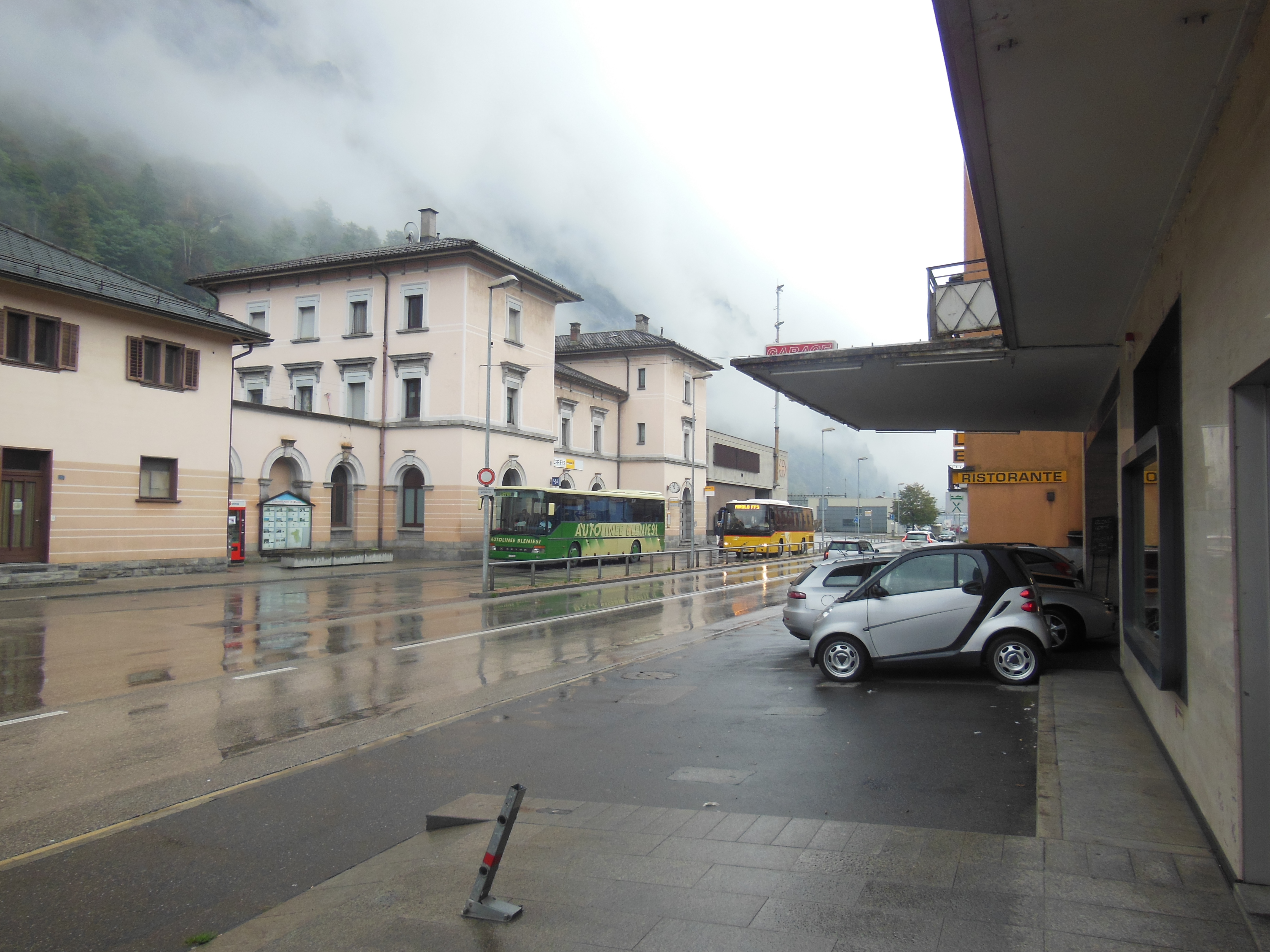 The frontage of Biasca railway station, on the Gotthard railway in the Swiss canton of Ticino. For more information, see wikipedia article Biasca railway station.